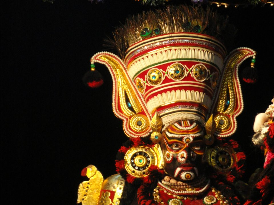 Poothani